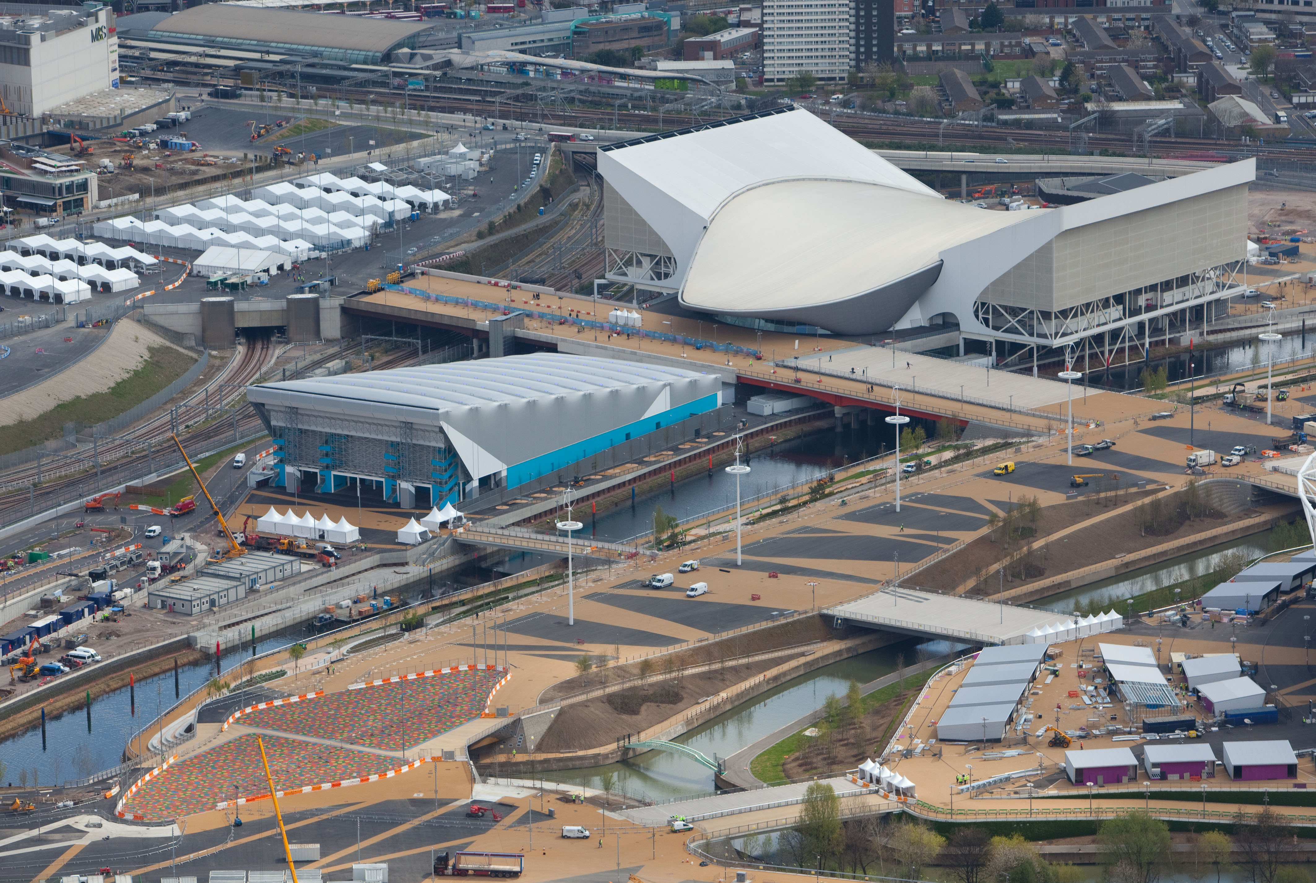 Aerial view of the Olympic Park showing the Aquatics Centre and the Water Polo Arena. Picture taken on 16 April 2012.